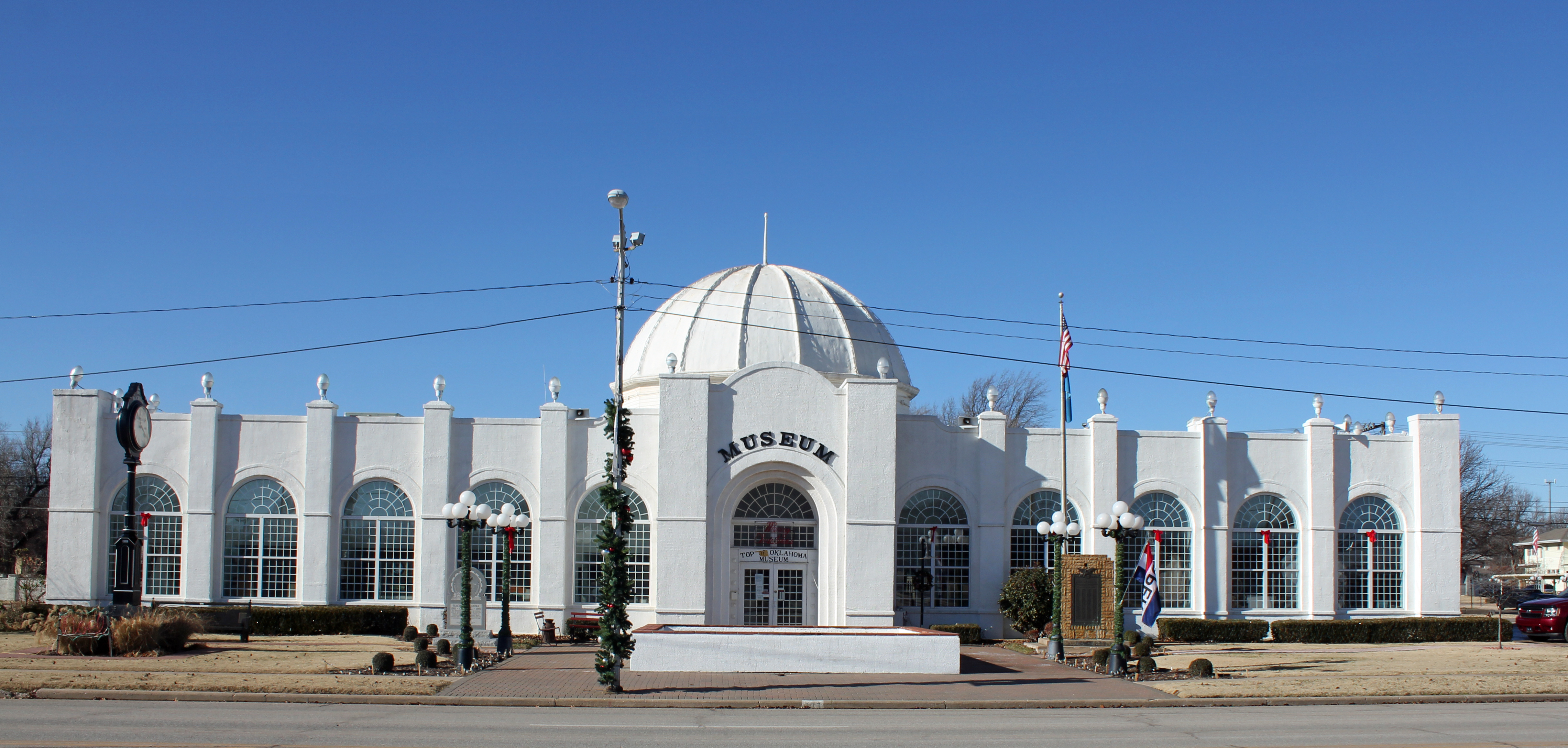 The Electric Park Pavilion, located at 300 S. Main in Blackwell, Oklahoma. Now a museum, the property is listed on the National Register of Historic Places.